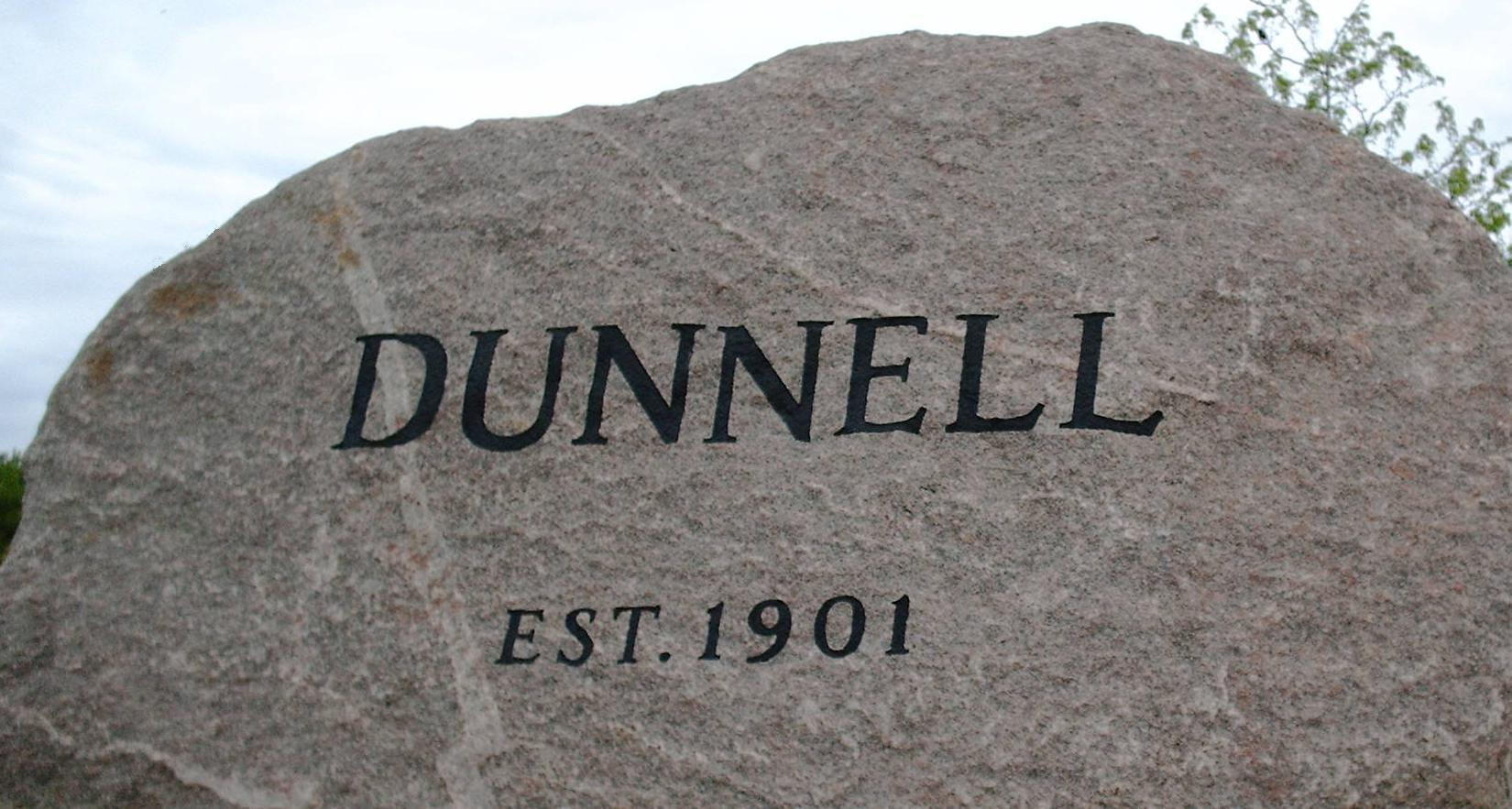 Photo I took 2006-05-21 of welcome sign for Dunell, Minnesota. CC & GFDL.